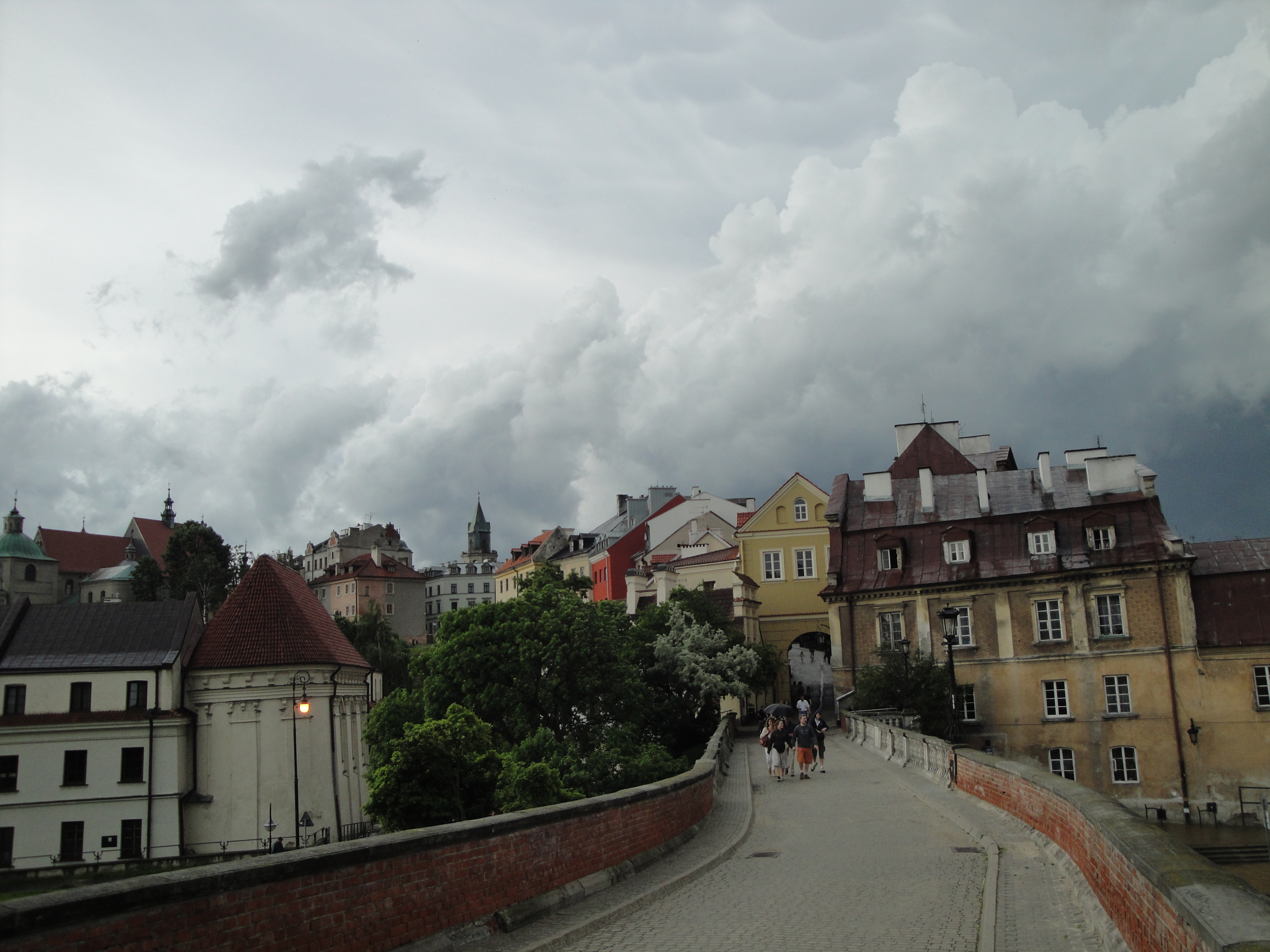 Picturesque Old Town of Lublin, photographed on 3rd June 2010.